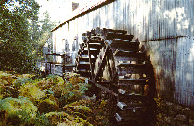 Bucket mill waterwheel The bucket mill was restored a few years ago and is now able to work again, producing wooden tubs and buckets. It is now owned by the Finzean Community Trust, along with the turning mill a mile downstream.